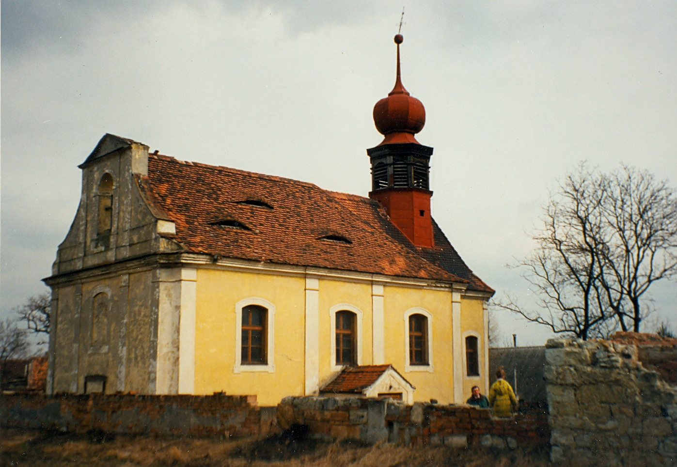 Church of Nativity of the Virgin Mary in Mory